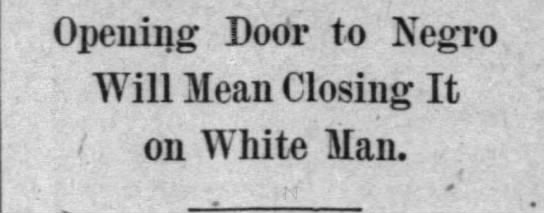 Chicago Tribune. Feb 1903.